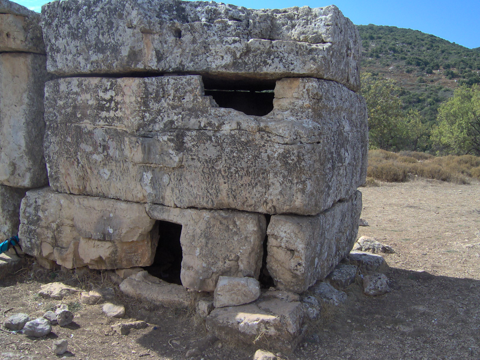 The tomb of Shamai in the Meron river in Israel